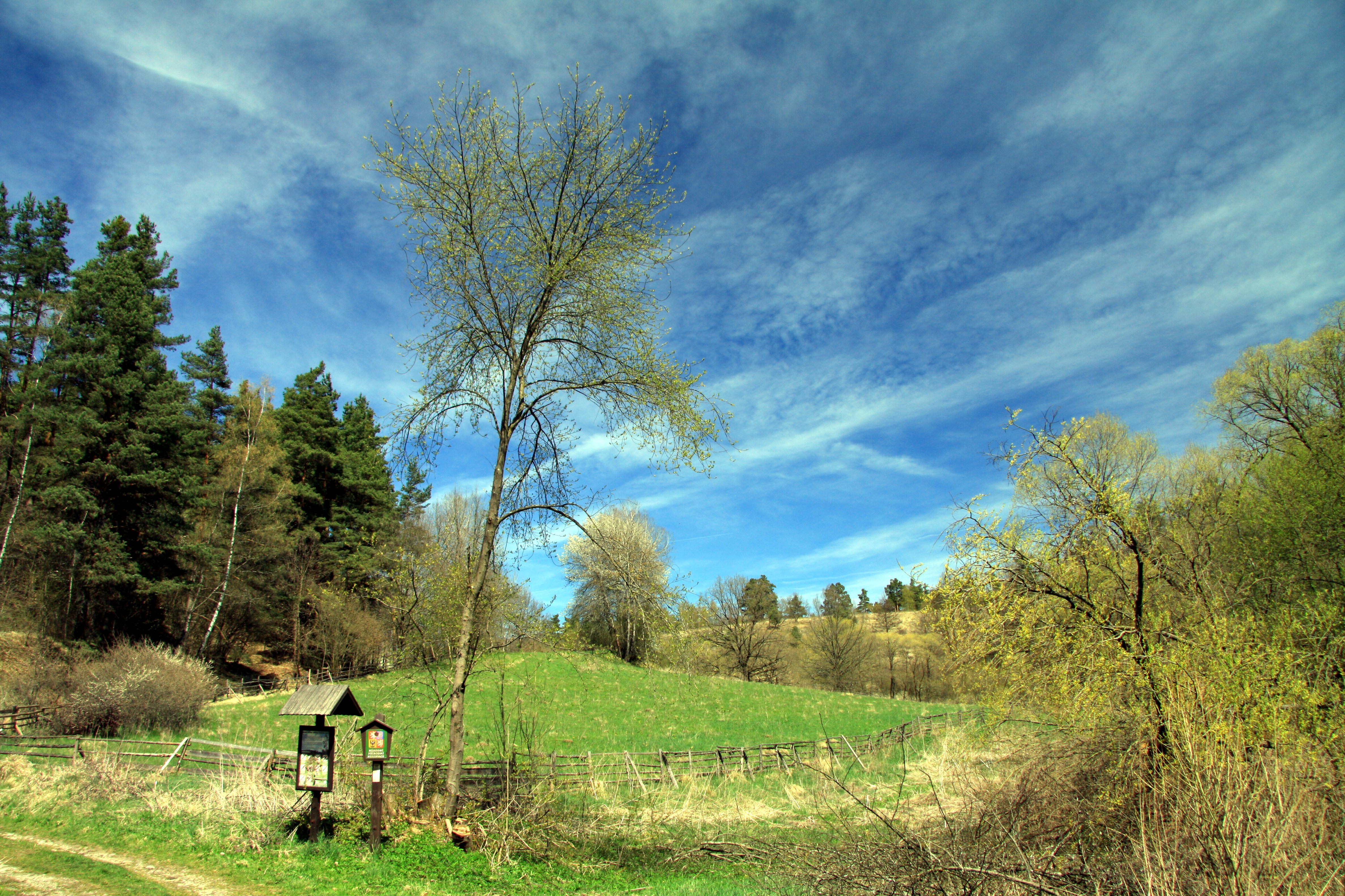 National nature reserve Vyšenské kopce in Český Krumlov District, Czech Republic Project: Chráněná území